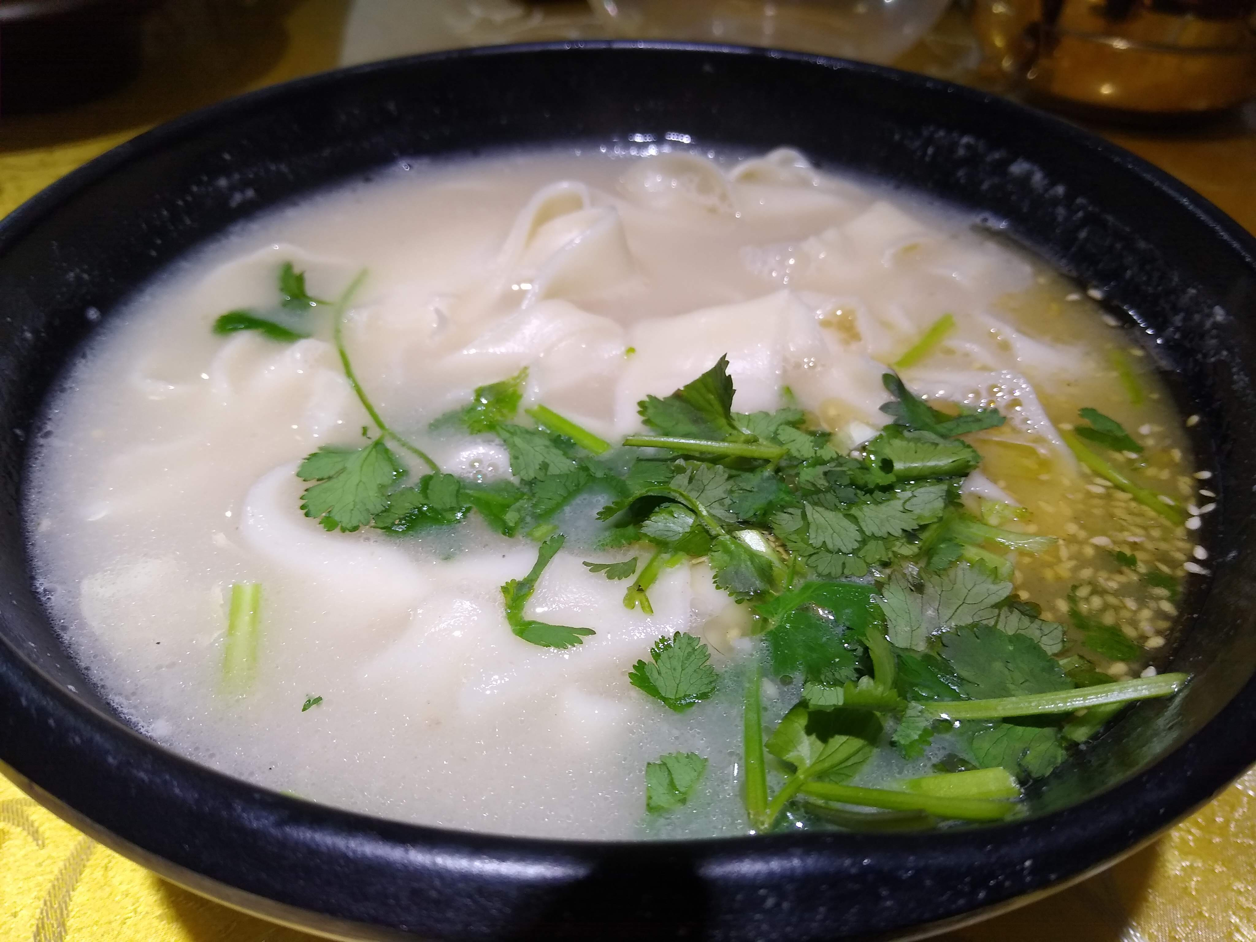 Stewed noodles (河南滋补烩面) without beef at a Henanese restaurant in Shenzhen.